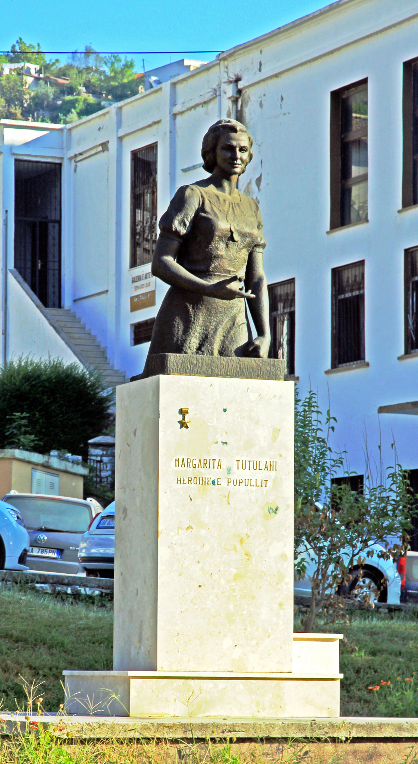 The statue of hero Margarita Tutulani in the centum of the town Berat, central Albania, September 2018